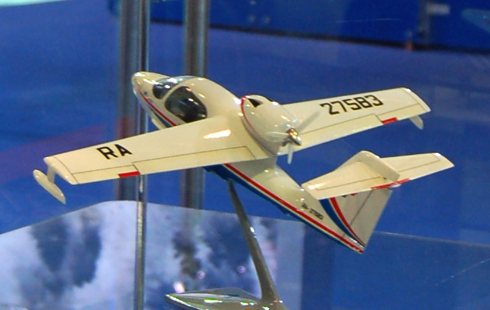 Maquette of Beriev Be-101. MAKS-2009